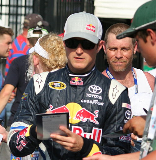 Kasey Kahne Coke 600 2011